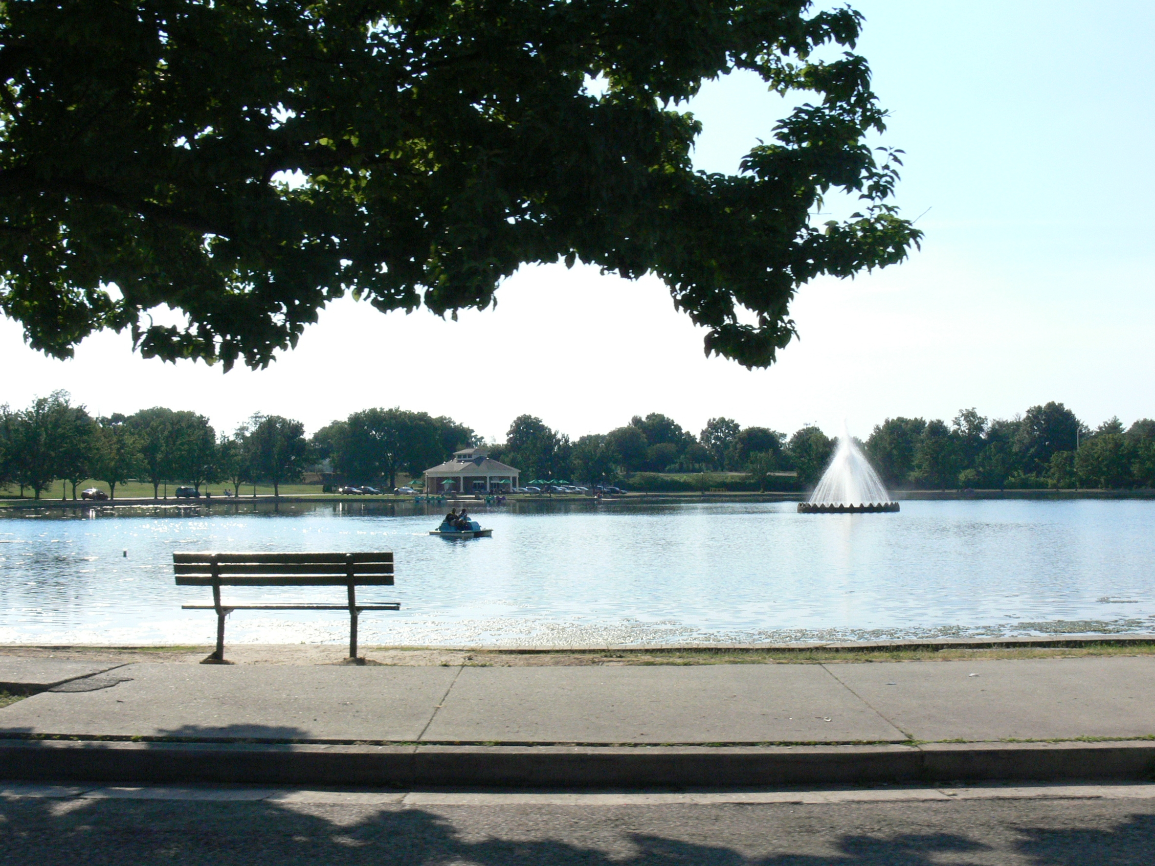 The Fountain Lake at Byrd Park in Richmond, Virginia. (Cropped and rotated)